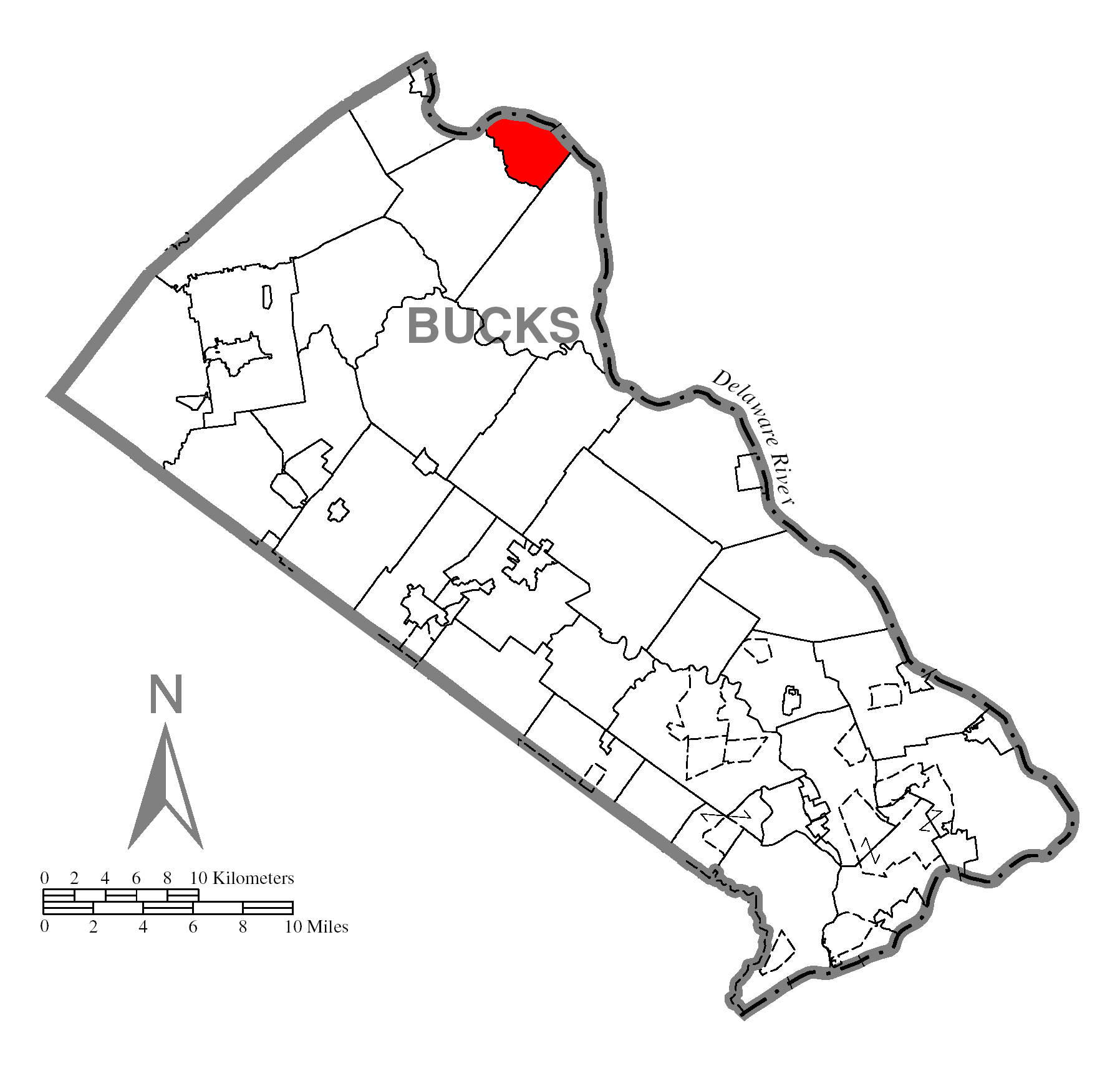 A map of Bucks County showing Bridgeton Township, Pennsylvania (alternate) highlighted on the map.